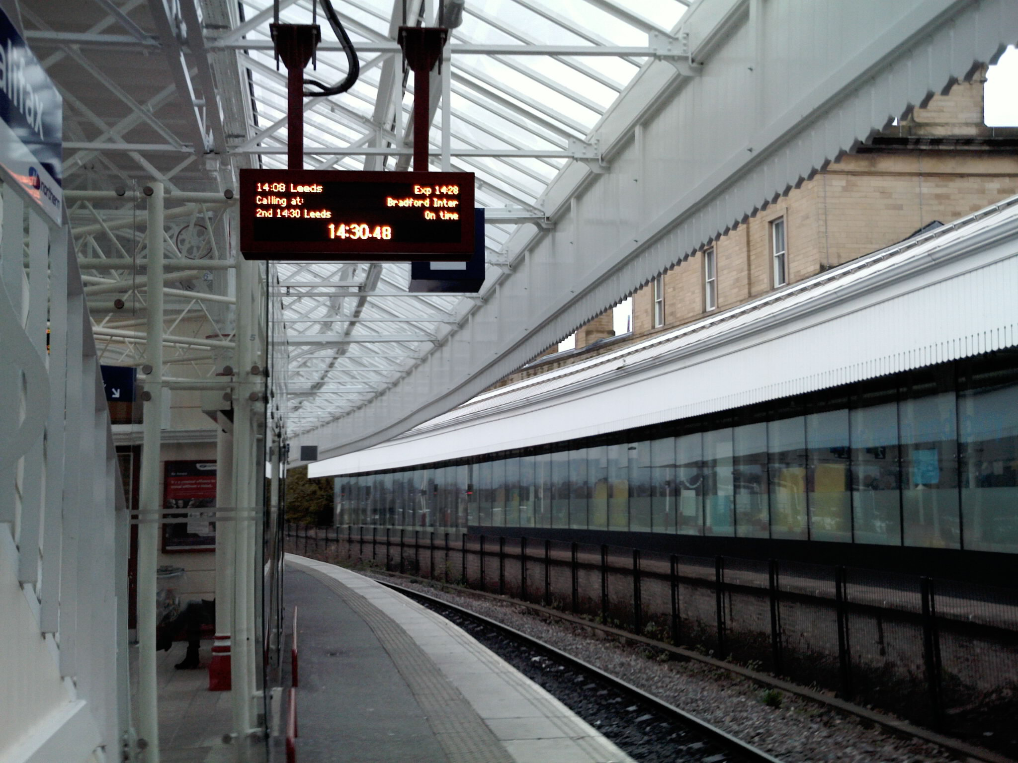 A platform at Halifax railway station, Halifax, West Yorkshire. Taken on a Sunday in November 2009.